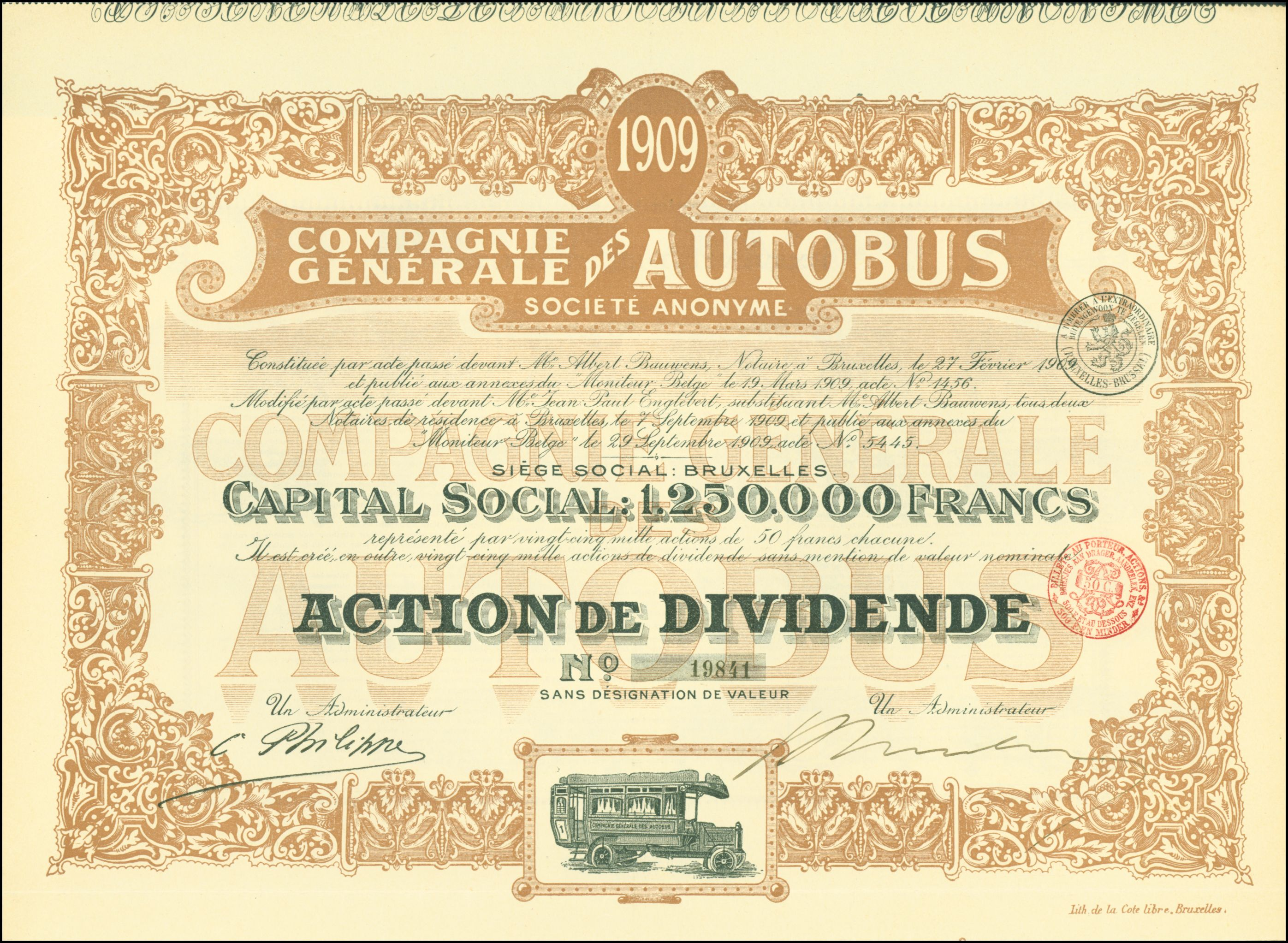 Share of the Compagnie Generale des Autobus SA, issued 29. September 1909